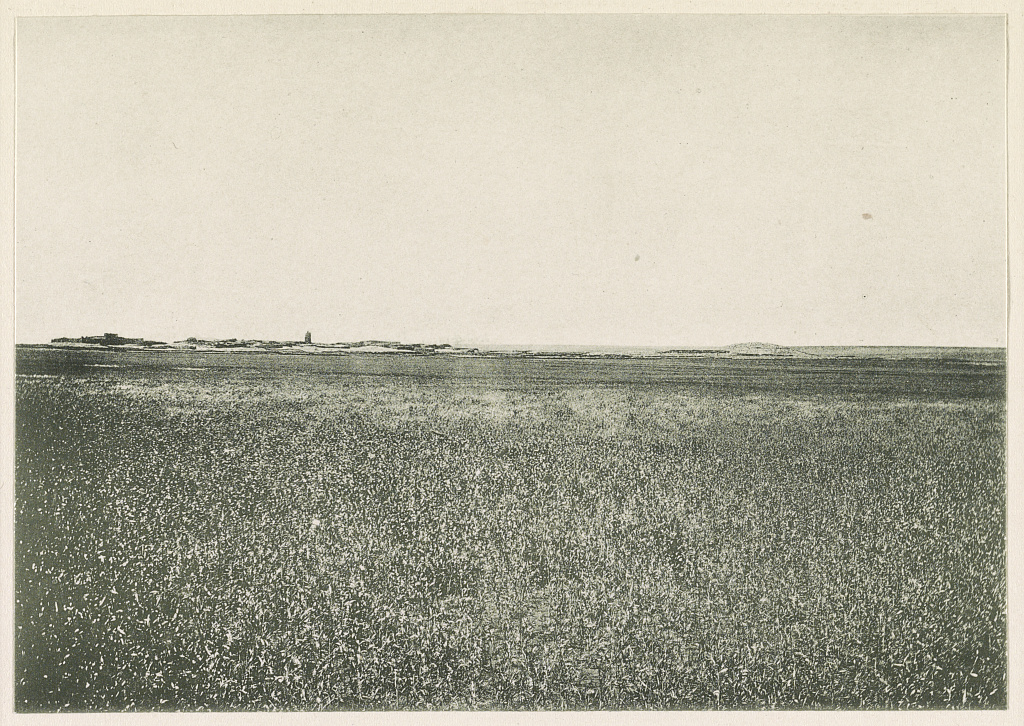 Title: Ḥaurânlandschaft bei dem Dorf Chirbet el ghazâle, 106 km südlich von Damaskus. Abstract/medium: 1 photograph ; photomechanical print.